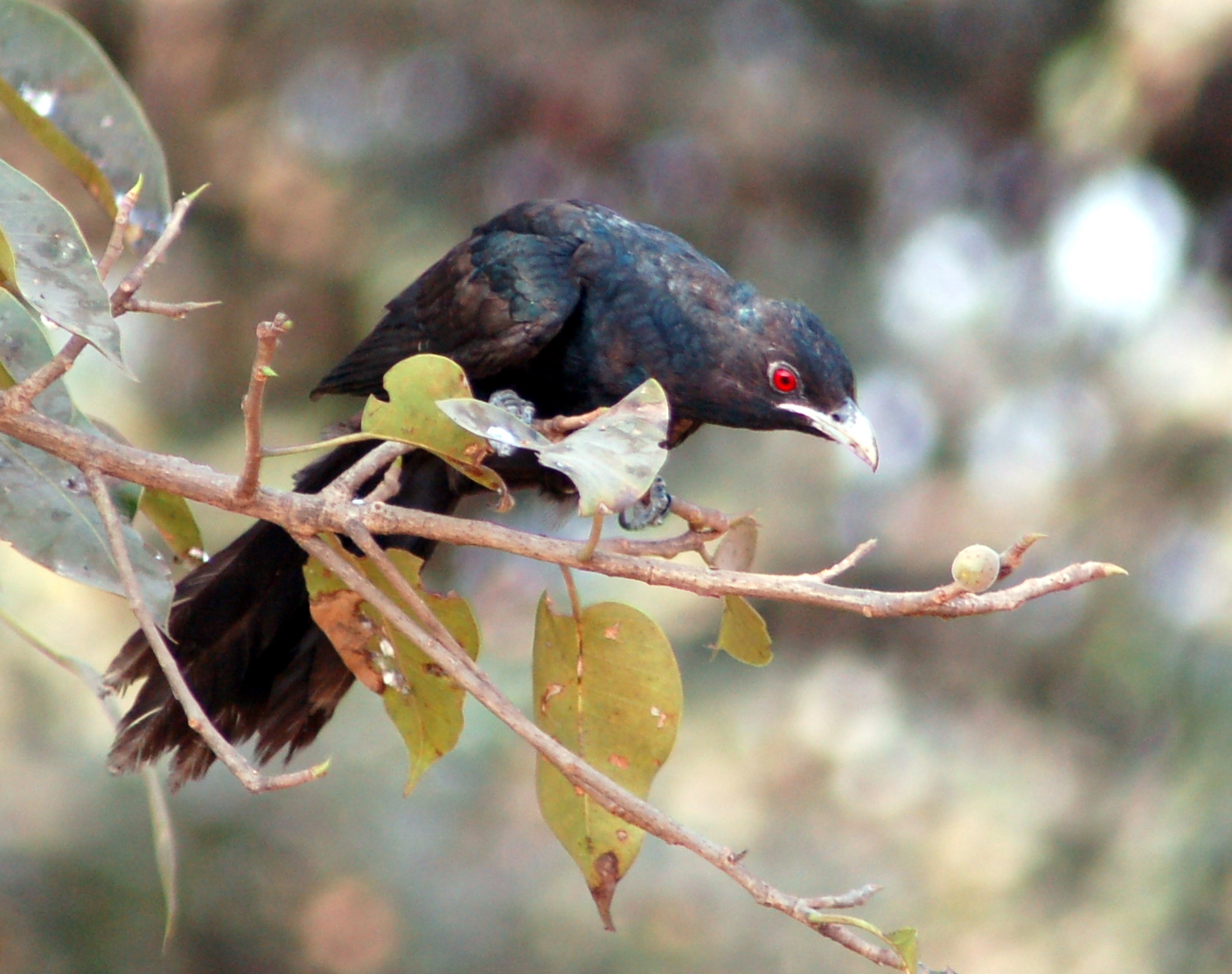 Asian Koel: Eudynamys scolopacea